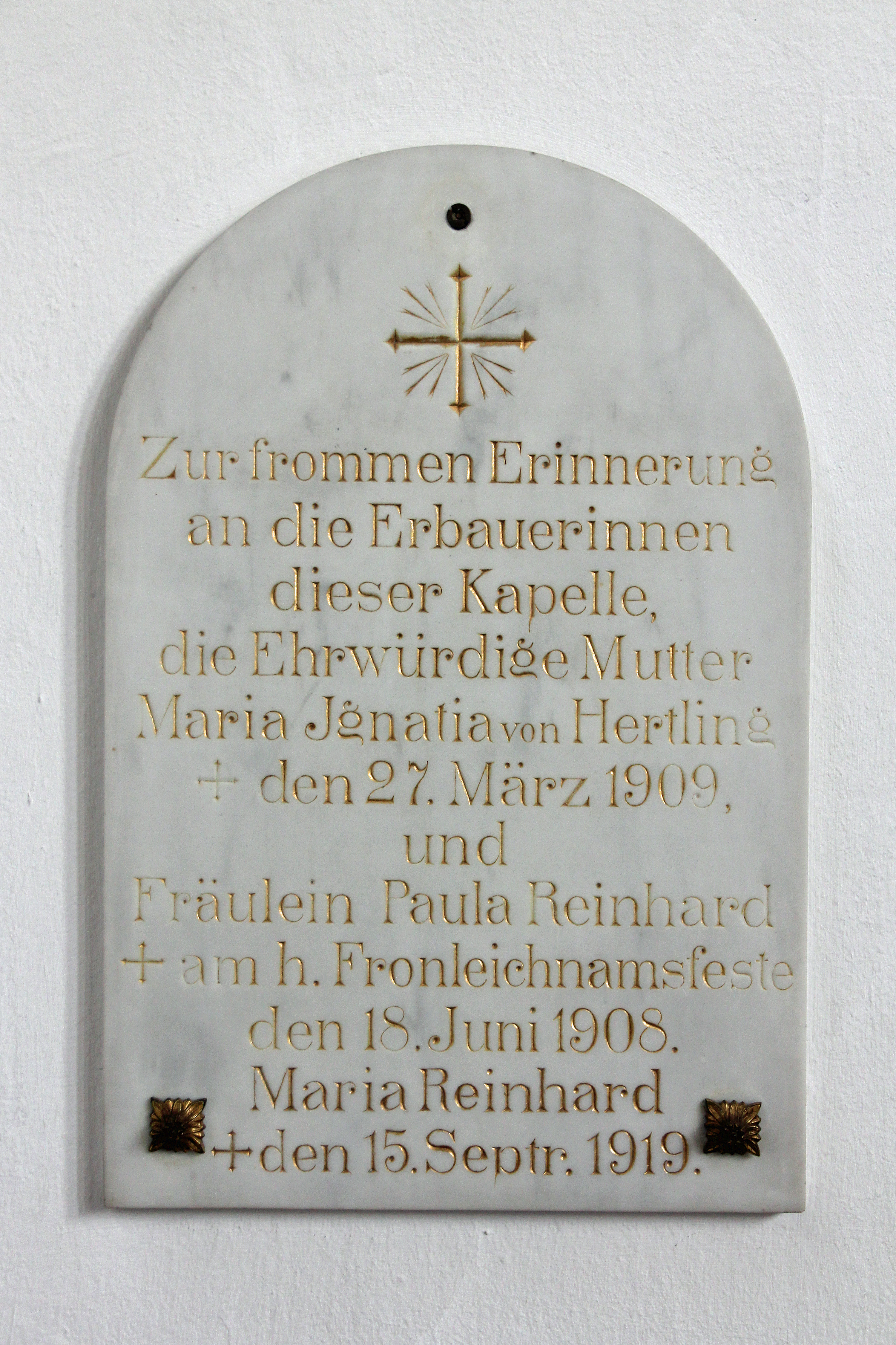 Bethlehem monastary in Koblenz